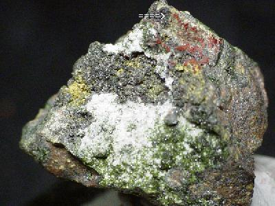 Jamesite Locality: Tsumeb Mine (Tsumcorp Mine), Tsumeb, Otjikoto (Oshikoto) Region, Namibia (Locality at ) Jamesite is an exceedingly rare lead zinc iron arsenate. I have personally nevert seen another for sale, but I am told that this IS indeed an excellent specimen for the species by somebody who has. This piece features eye-visible (sub-mm) red crystals in a rich zone in the upper-right of the matrix. It's easy to spot and has also been independently analyzed by Joef Vajdak in the Czech Republic and by Marcus Origlieri at the University of Arizona. Note that in the reference book, TSUMEB II by Dr. Georg Gebhard, the species is designated "RRR," i.e. "Extremely rare single occurrence with less than 10 specimens known" (obviously not accounting for later trims). 3 x 3 x 2.5 cm